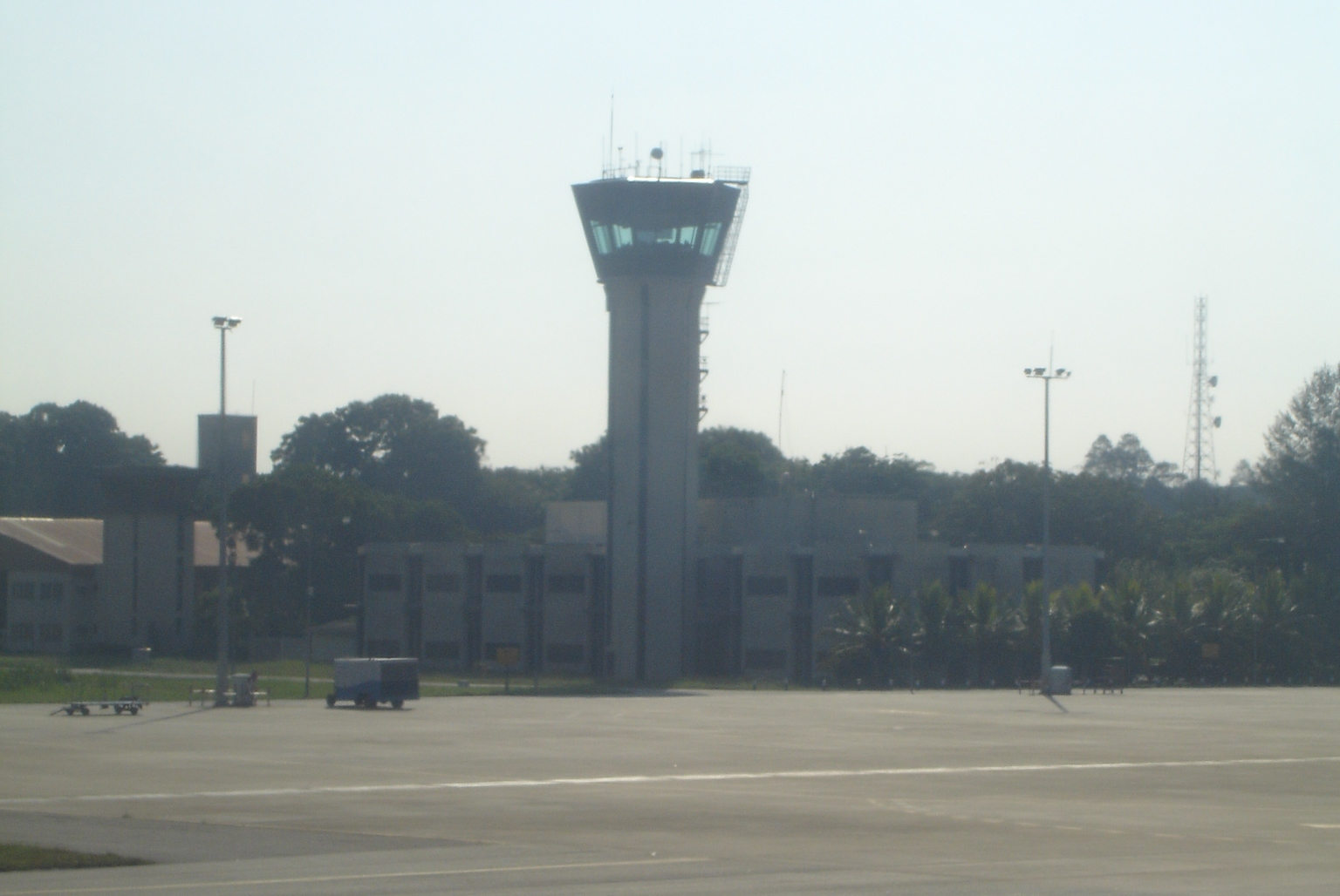 Control Tower at Bandaranaike International Airport, Sri Lanka.